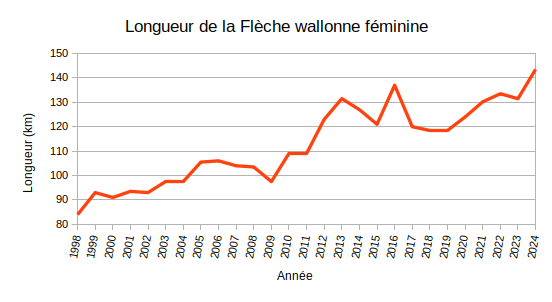 Race length of the Flèche wallonne féminine